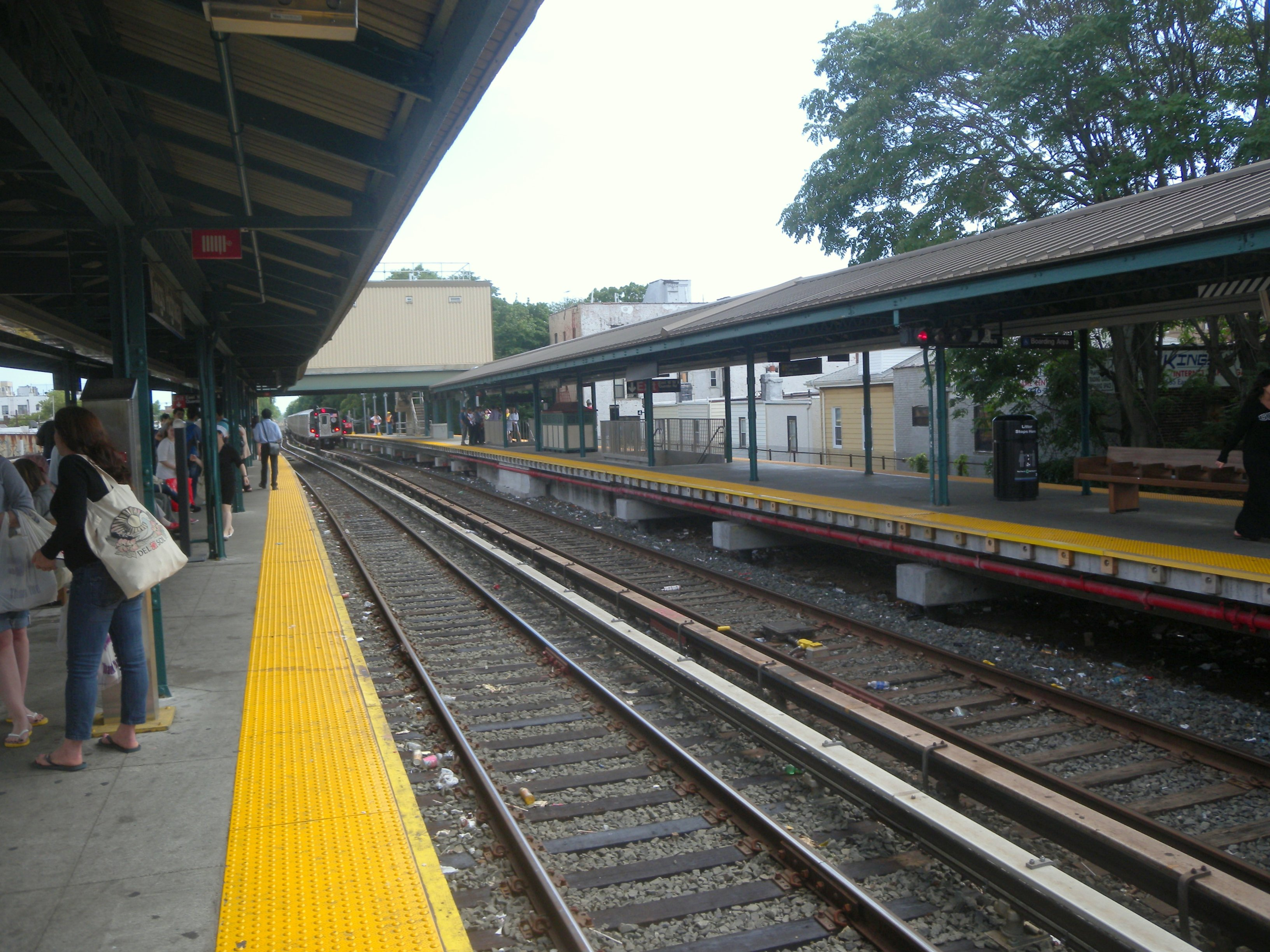 Looking south from northern part of northbound platform on a mostly sunny afternoon.